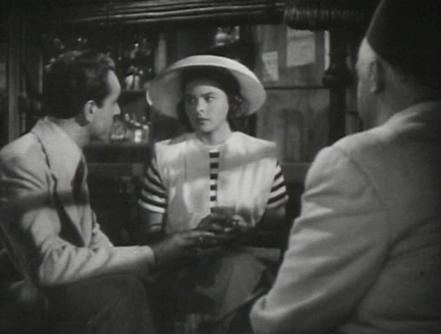 Screenshot of Paul Henreid and Ingrid Bergman talking to Sydney Greenstreet.